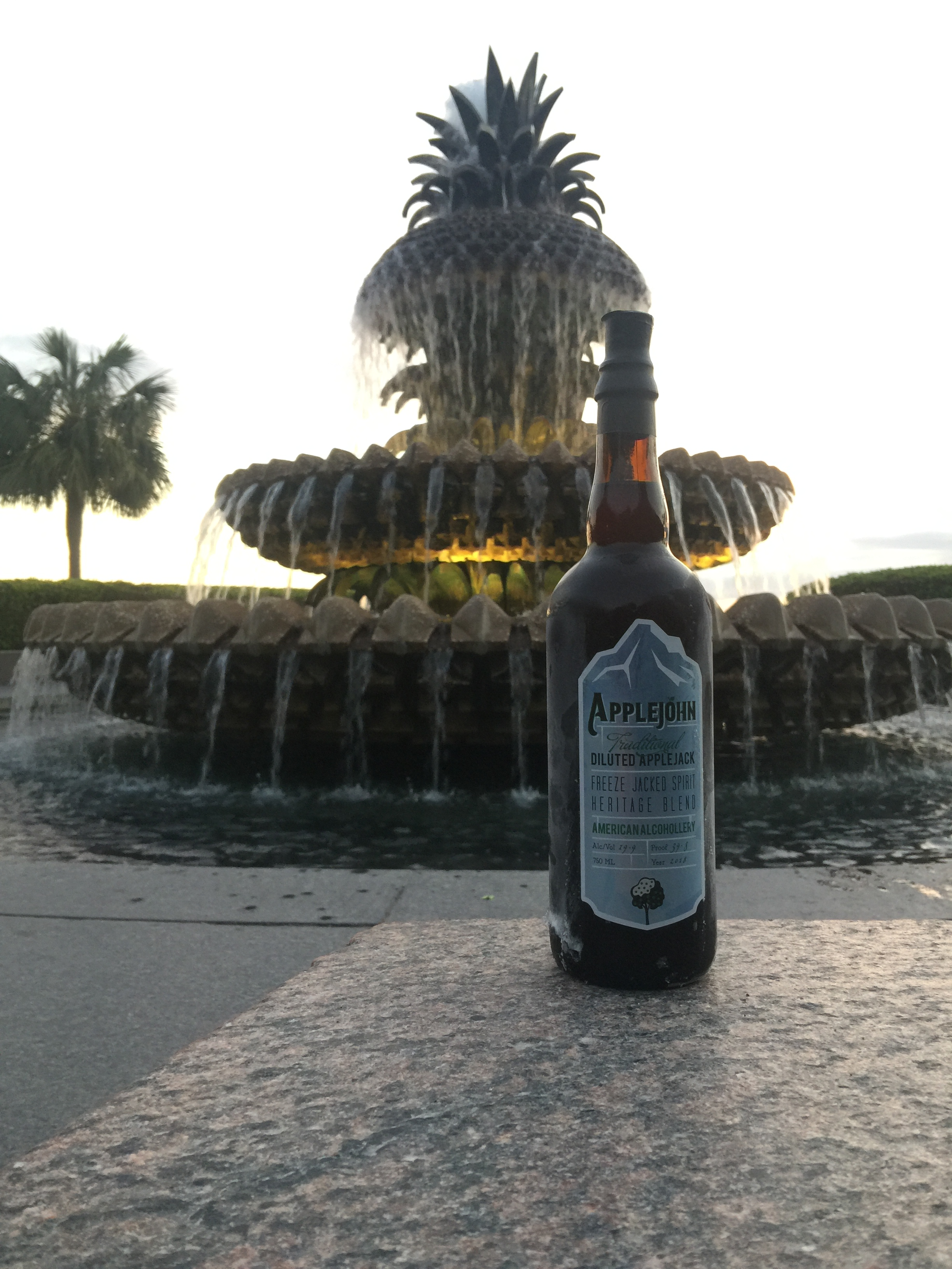 Applejohn Applejack in Charleston SC